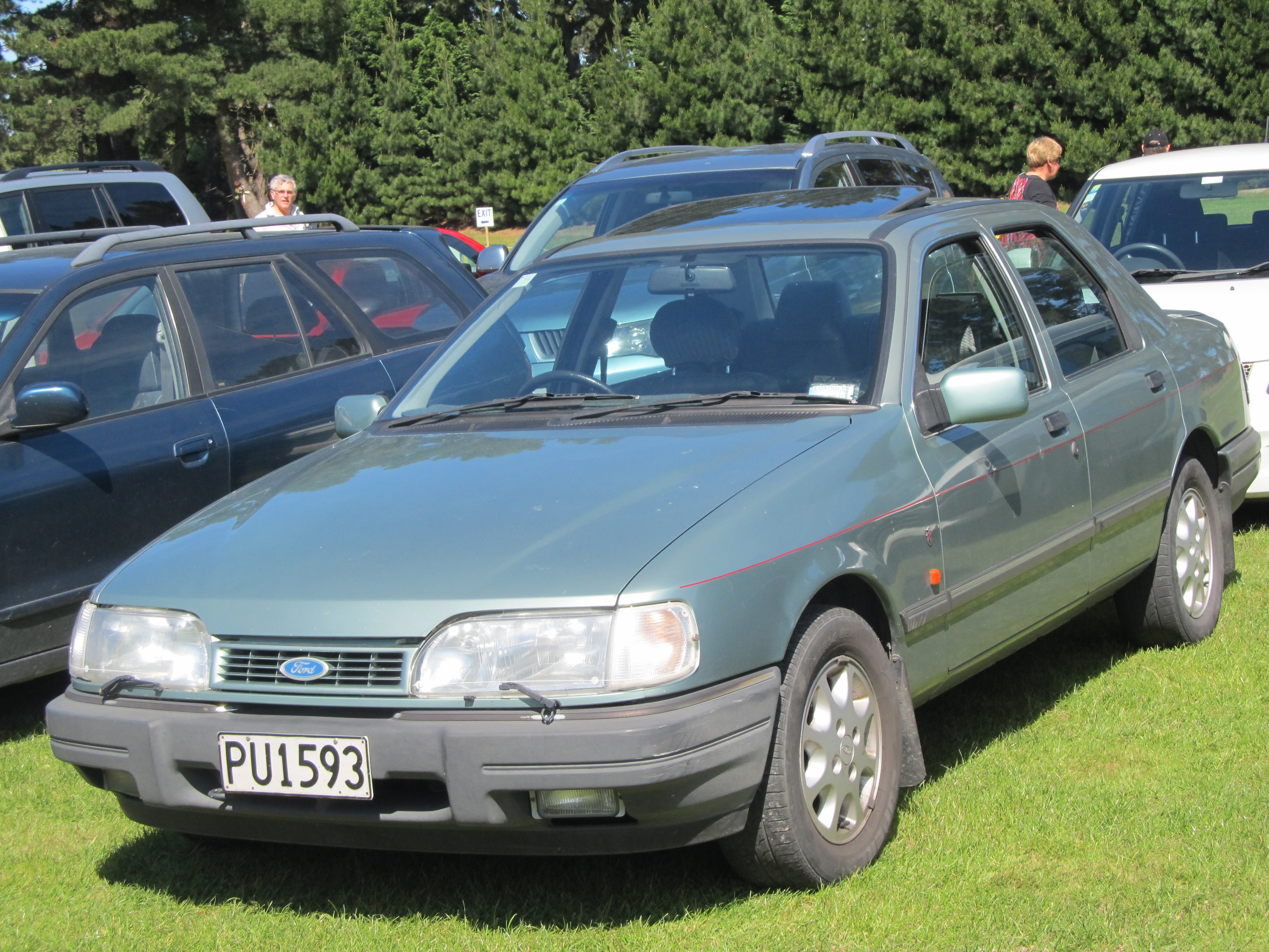 PU1593 Yes, the Sierra was sold here in NZ - initially only as the estate in 1984, but later as the Sapphire. As Ford NZ's mid-sizer was already the Telstar, the Sierra was marketed as a more upmarket choice, and was available in saloon and estate forms. I have seen two estates recently - one MkI and one MkII. This is the first Sapphire I have seen for a while. Seen in the USA Day car park, Woodend, North Canterbury.